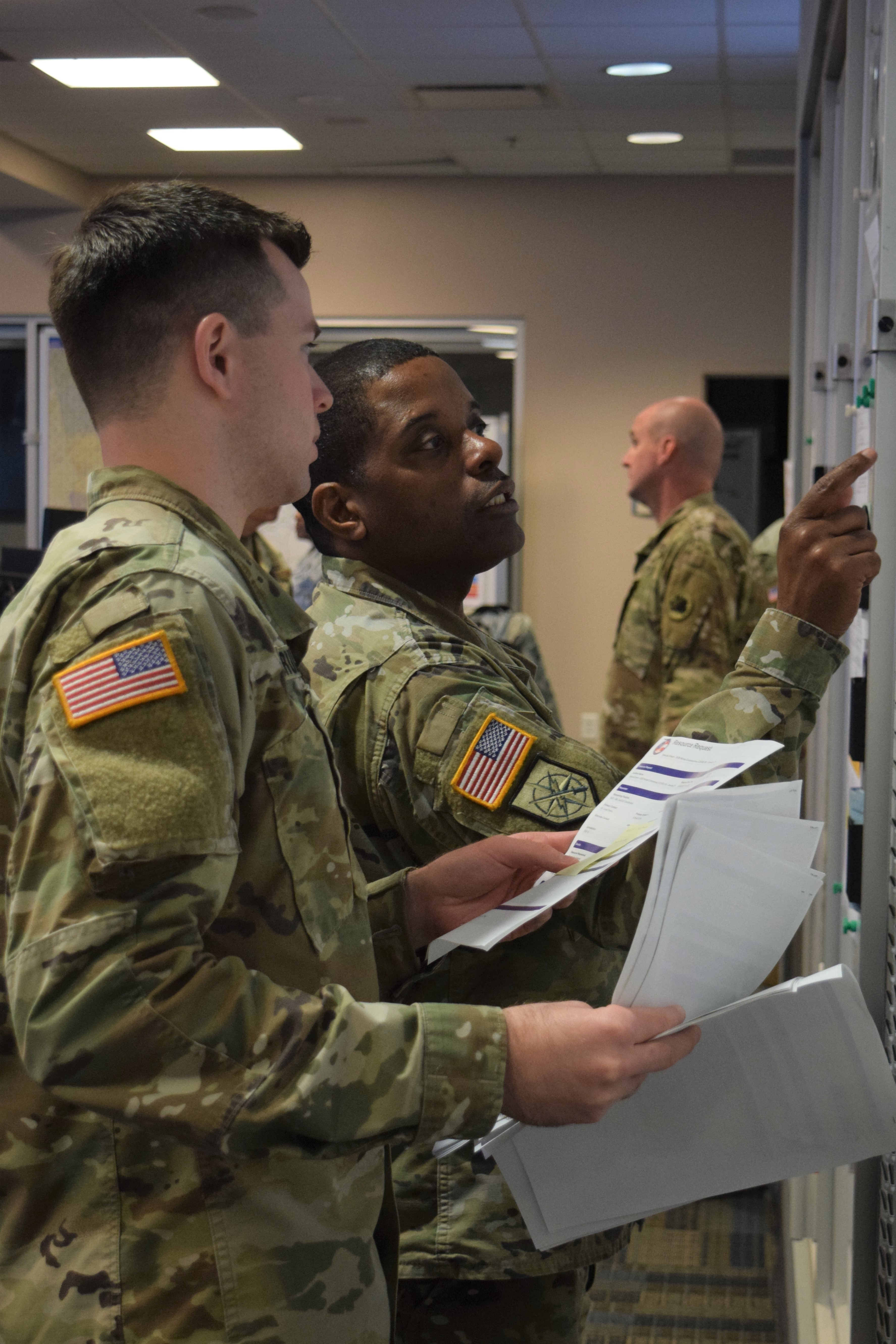 Georgia Army National Guard Lt. Col. Pervis Brown, officer in charge of the Georgia Department of Defense’s Joint Operations Center and 2nd Lt. Austin Brumby track mission assignments from the Georgia Emergency Management Agency at the Joint Force Headquarters in Marietta, Ga. March 23, 2020. Unit: Georgia National Guard DVIDS Tags: Georgia National Guard; emergency management; Georgia Guard; DSCA; National Guard; Domestic Response; Coronavirus; Covid-19; emergency response Georgia Emergency Management Agency